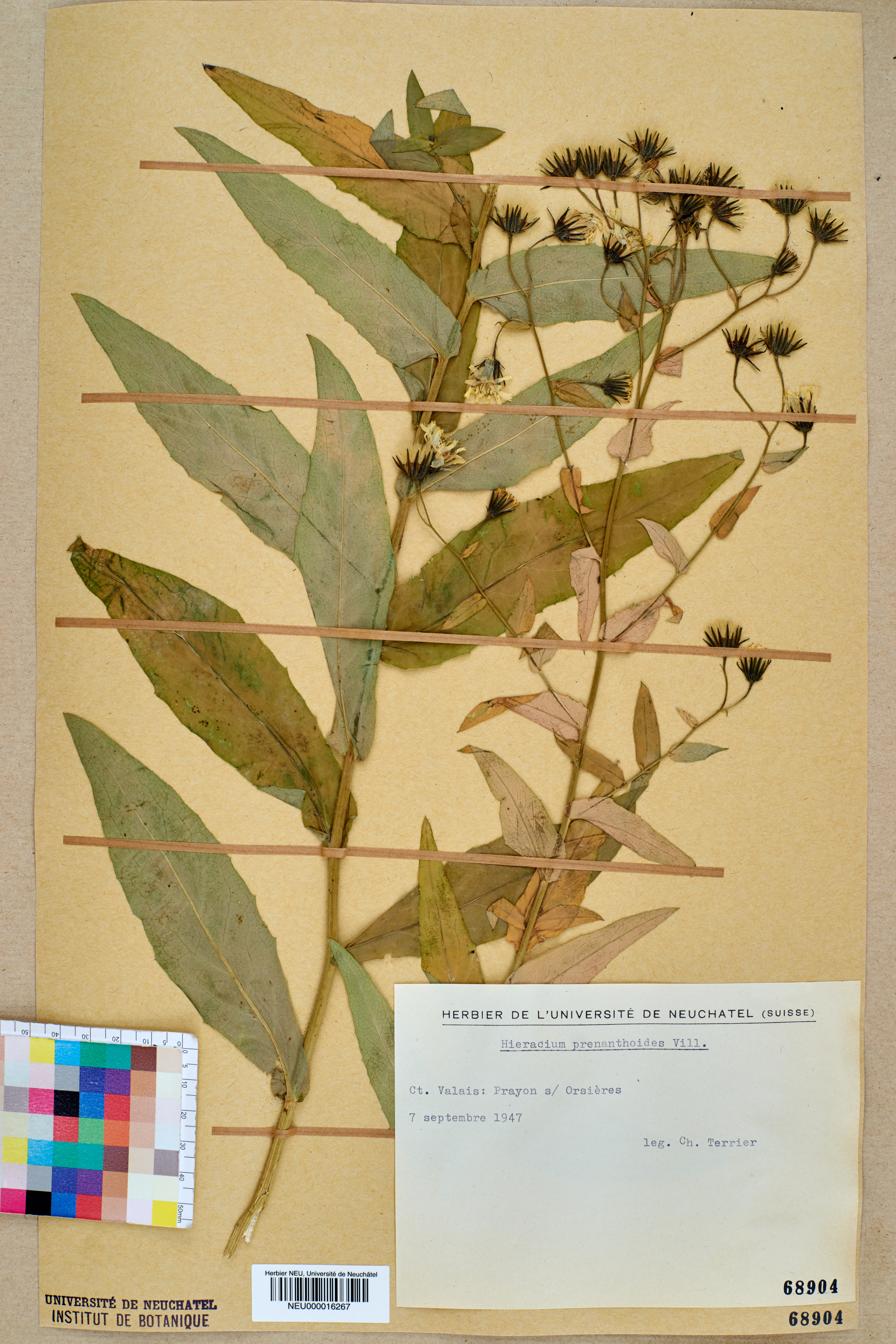 Dried pressed specimen of Hieracium prenanthoides